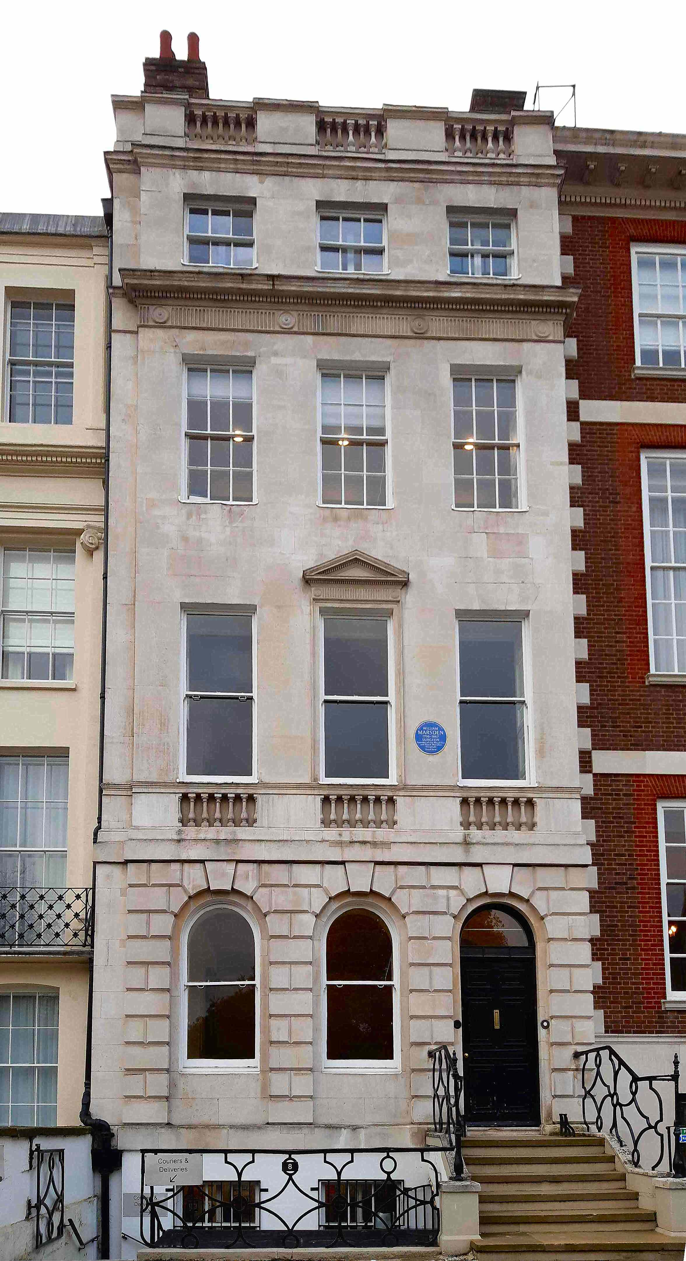 William Marsden (surgeon)'s house Lincoln's Inn Fields, with GLC Blue Plaque